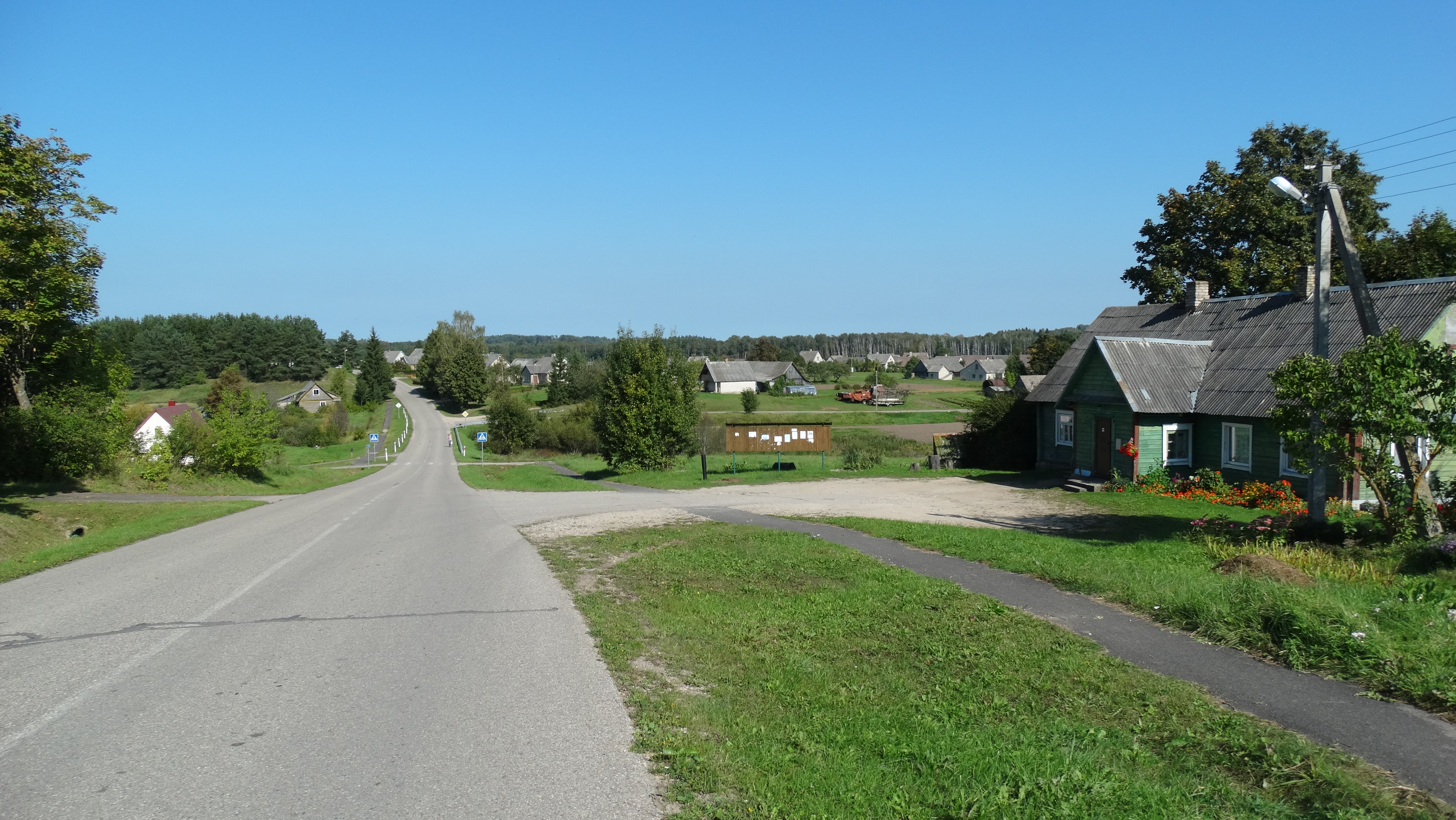 Suviekas, Zarasai District, Lithuania